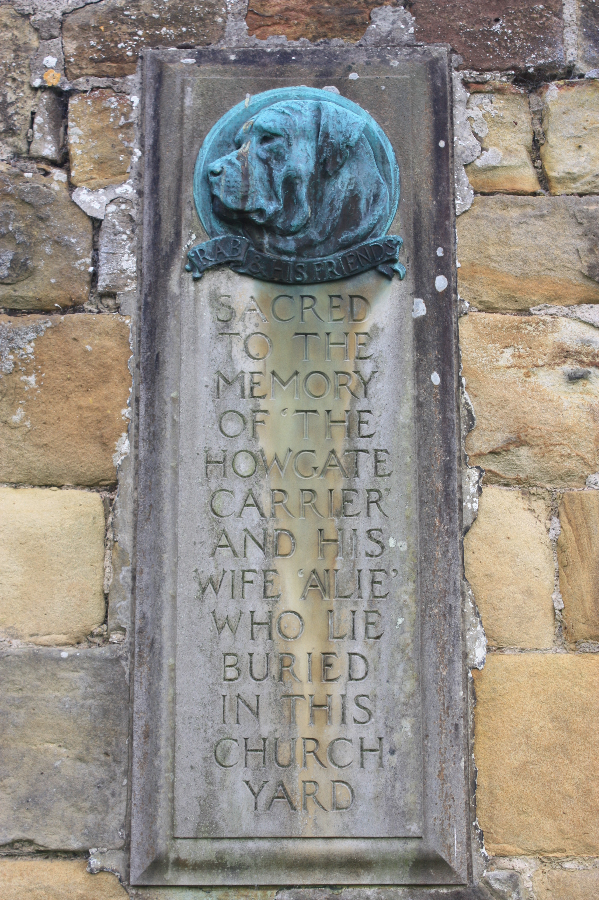 Monument to Rab and his Friends, St Mungo's Churchyard, Penicuik, Midlothian, Scotland